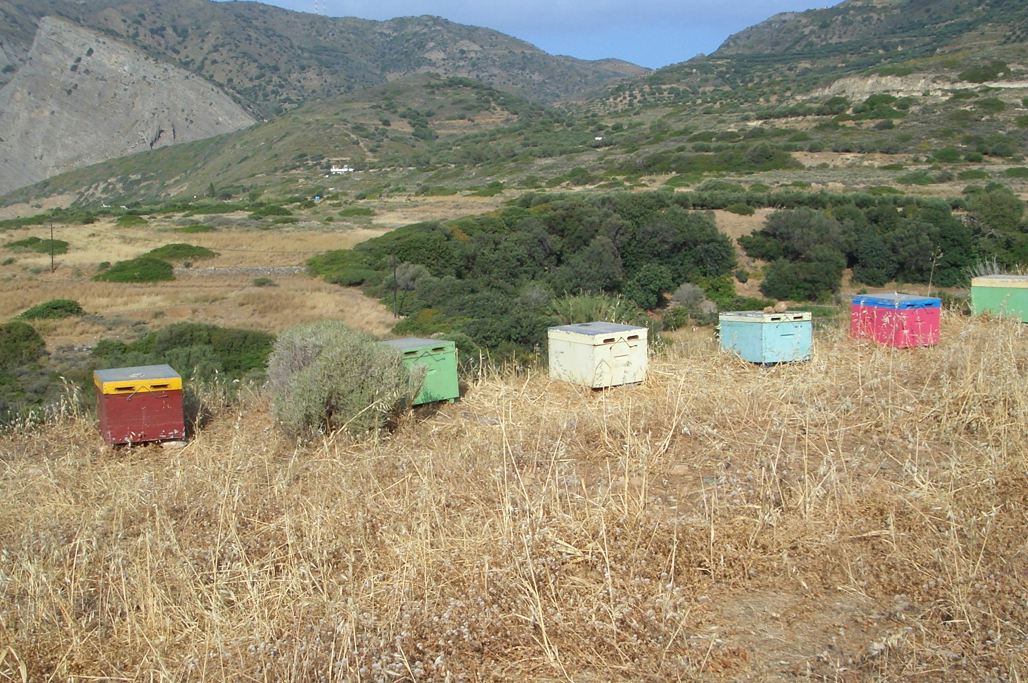 Beehives in Crete.